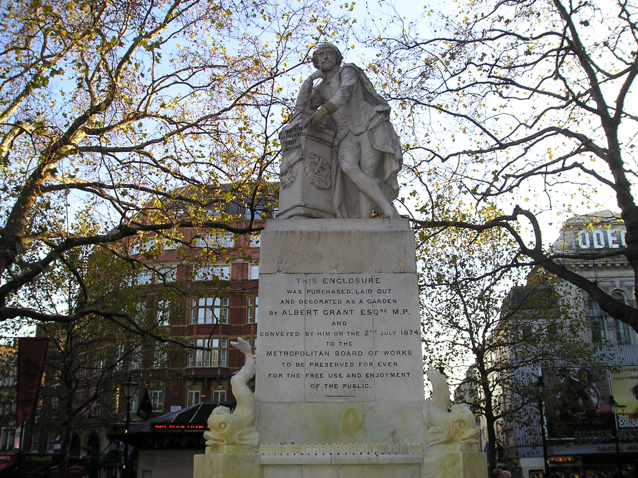 Statue of Shakespeare, Leicester Square